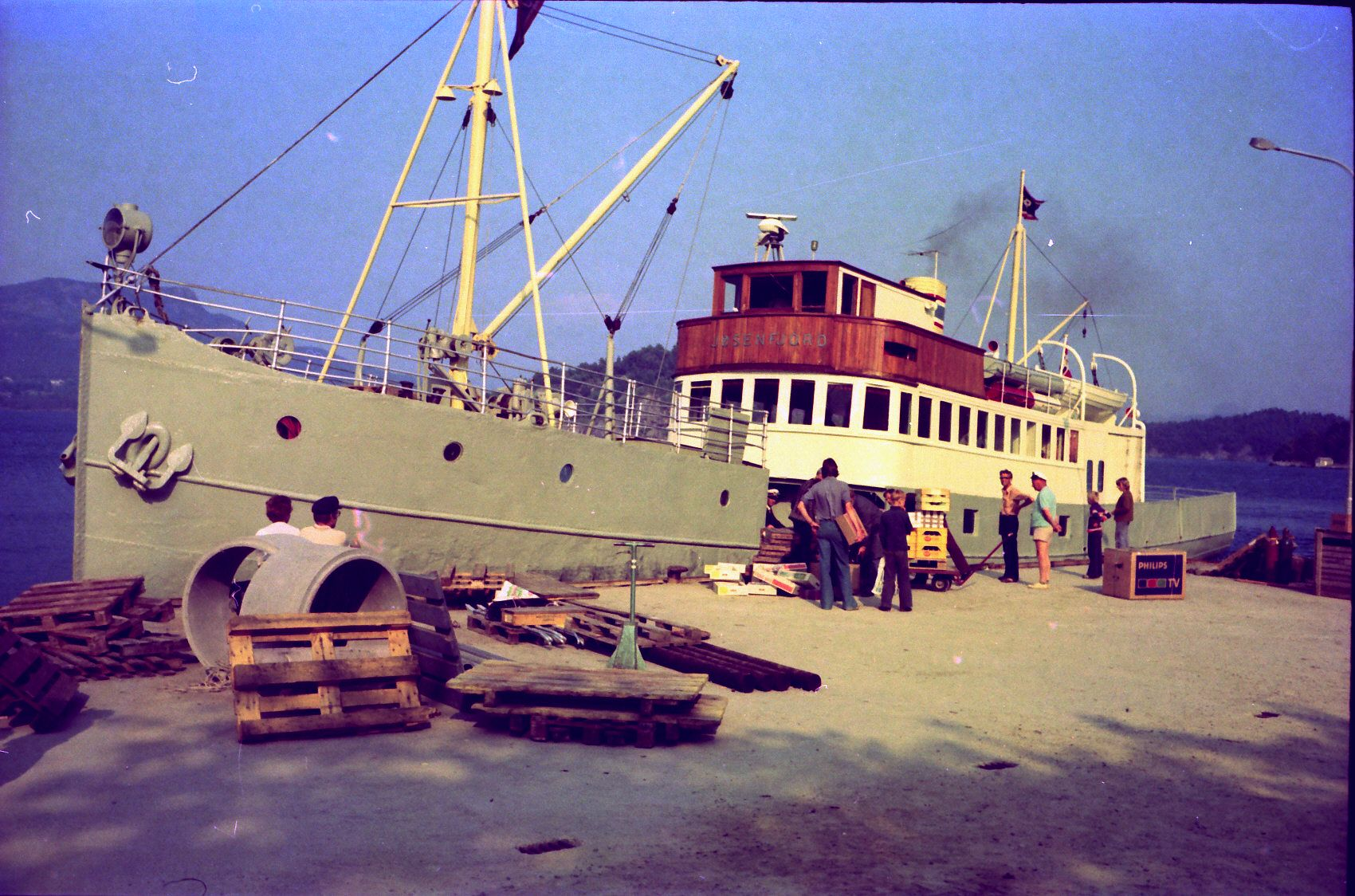 MS Jøsenfjord at Skartveit, Halsnøy in Ryfylke, summer 1975 A beauty, isn't she?